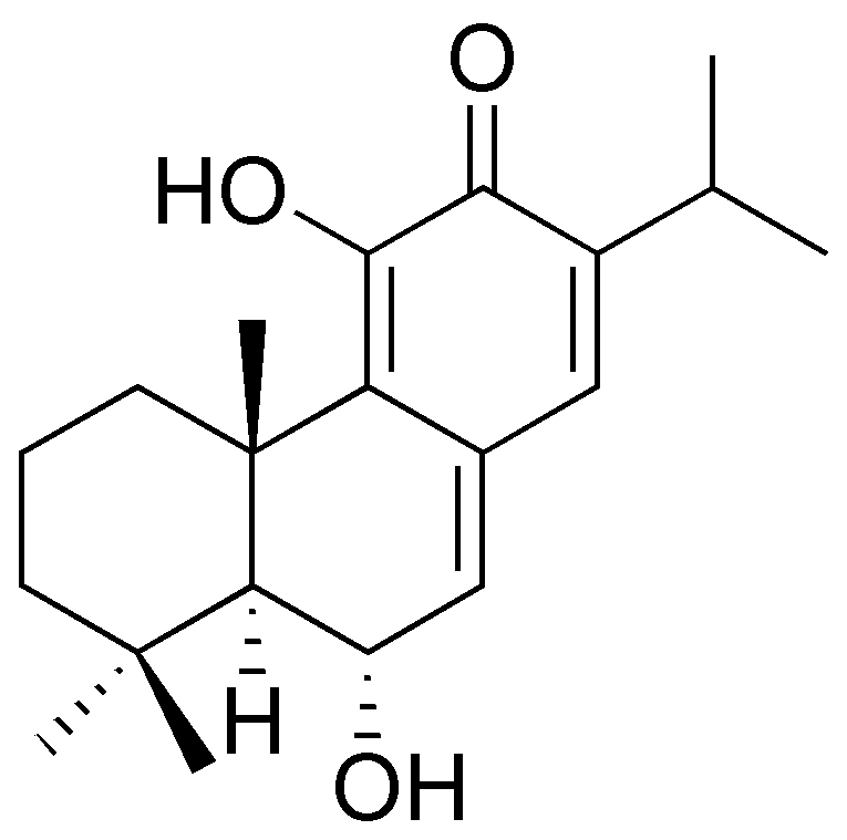 2D Chemical structure of Taxodone